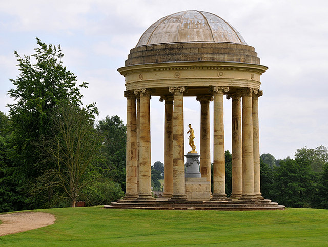 The Rotunda, Stowe Built 1720~1. The gilded statue of Venus is a modern replacement.